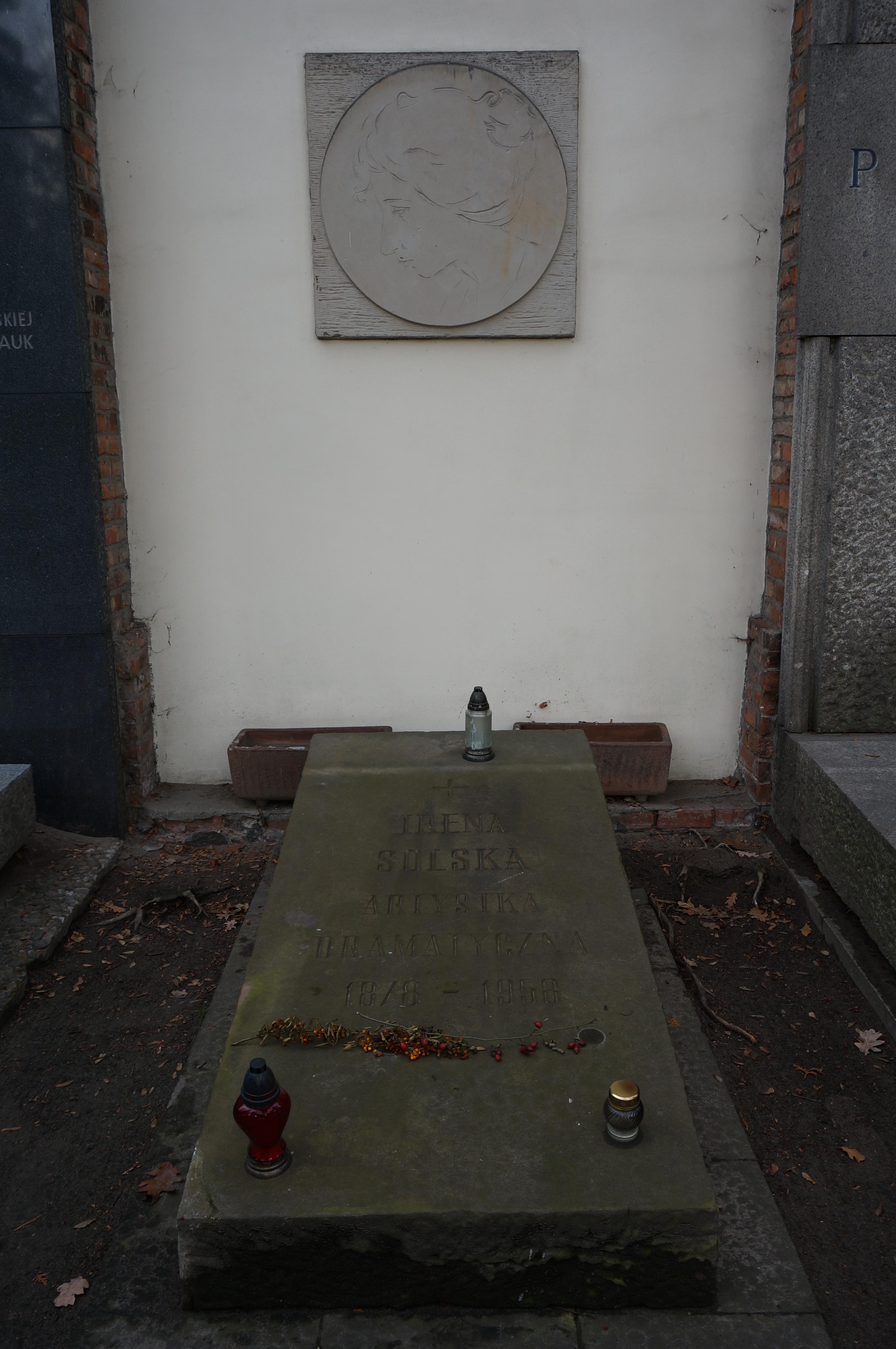 The grave of Irena Solska at the Powązki Cemetery (Avenue of Deserved, grave 74, 75)